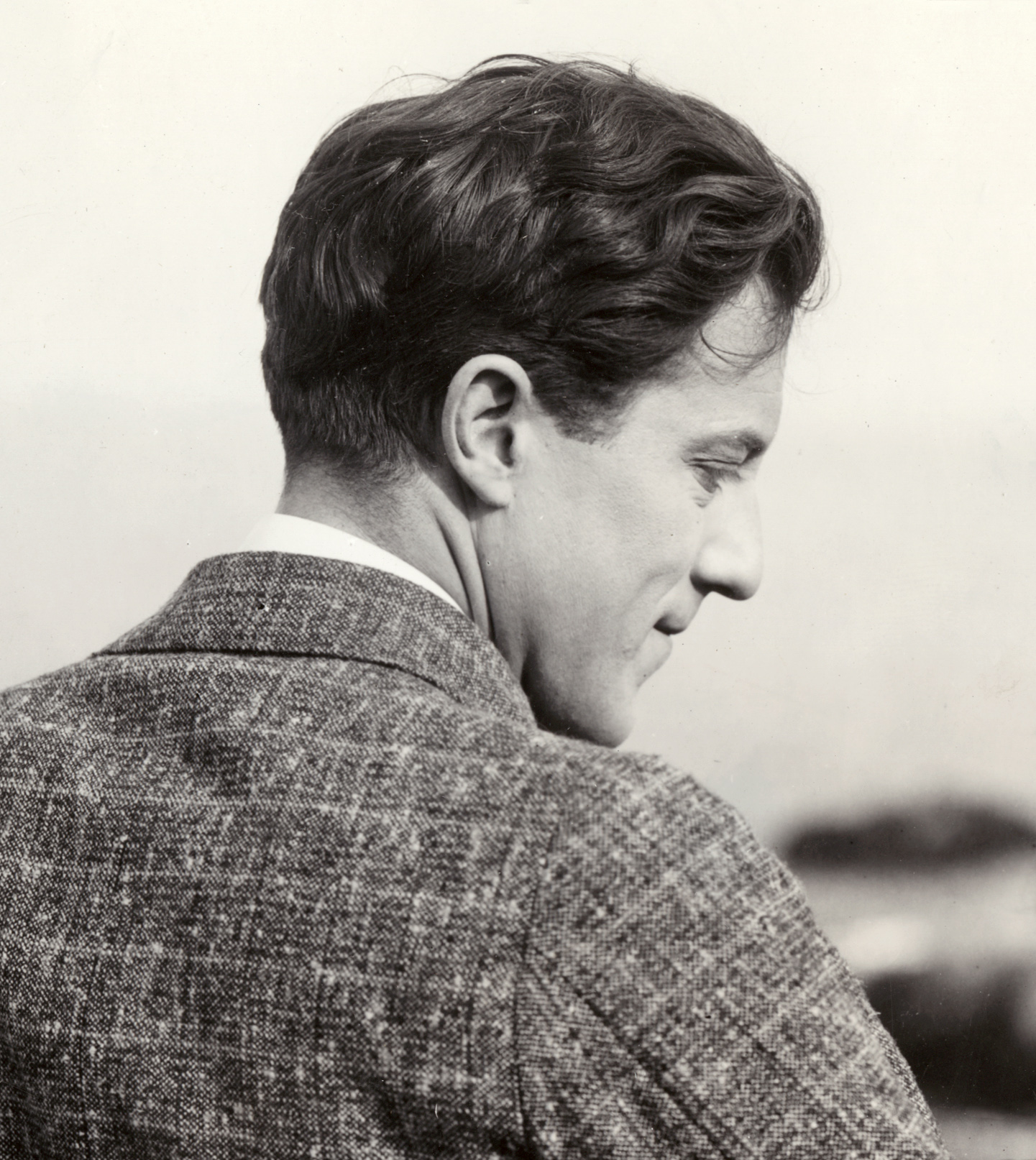 Silent film actor Robert D. Walker from a scene still for the 1917 film Aladdin's Other Lamp.